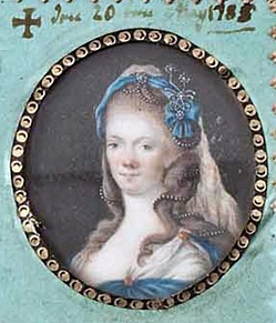 Elise Auguste von Spee geb. von Hompesch-Bolheim (1763–1785), Gattin von Carl Wilhelm von Spee, Tochter des bay. Finanzministers Franz Karl Joseph Anton von Hompesch zu Bolheim.